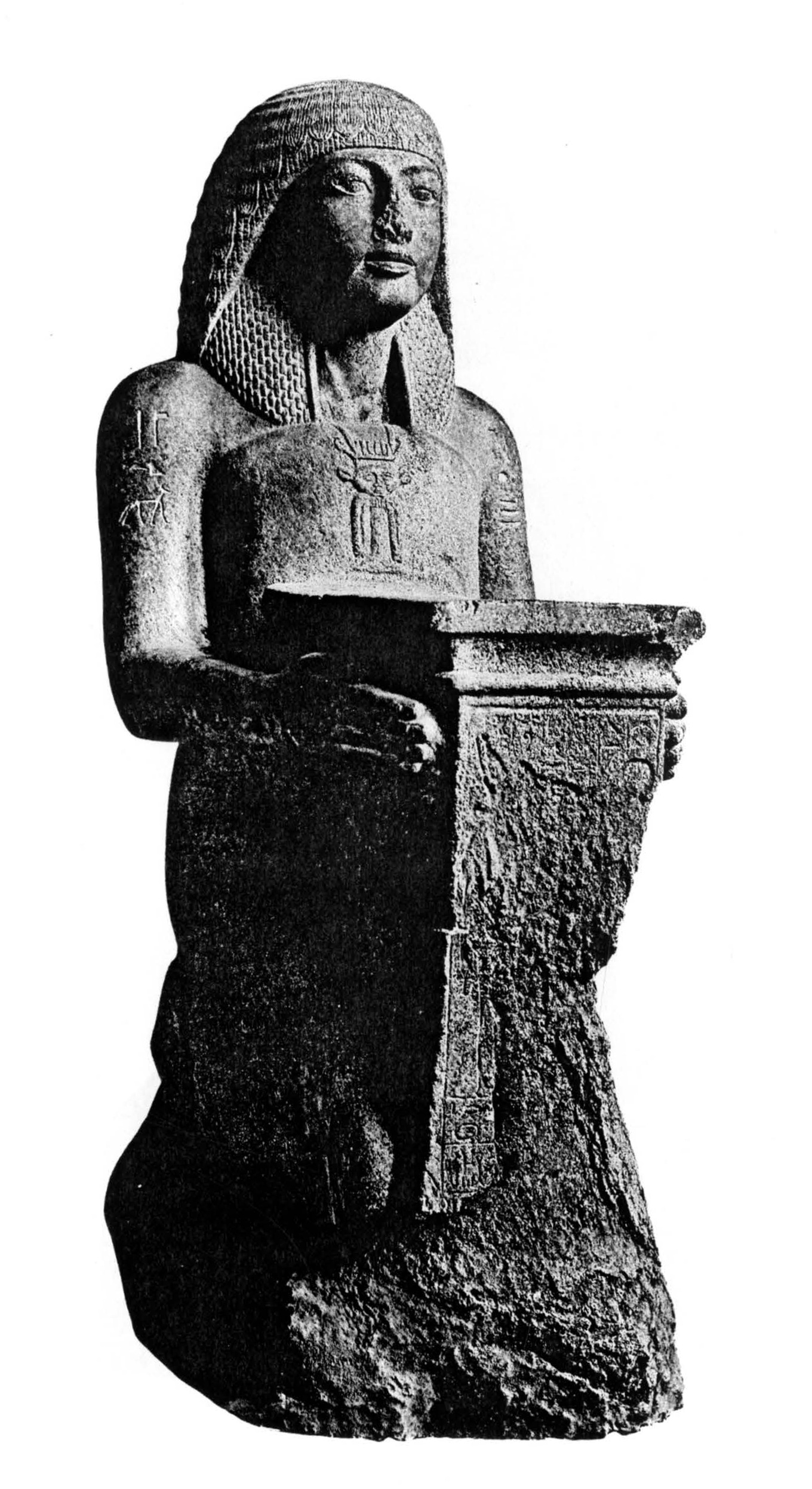 Kneeling statue of the vizier Paser, who served under Seti I and Ramesses II. From Karnak, great temple cachette. Granite, Reign of Seti I or Ramesses II, 19th dynasty, New Kingdom. Cairo, Egyptian Museum CG 42164 (JE 36935).